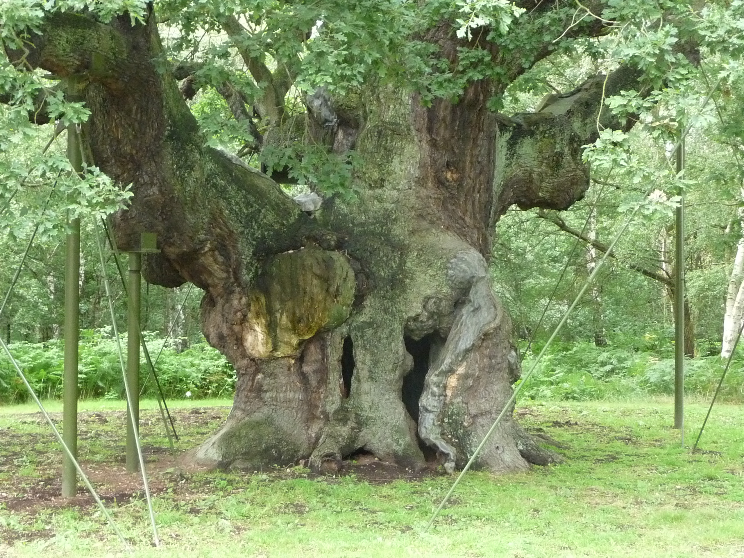 Major Oak